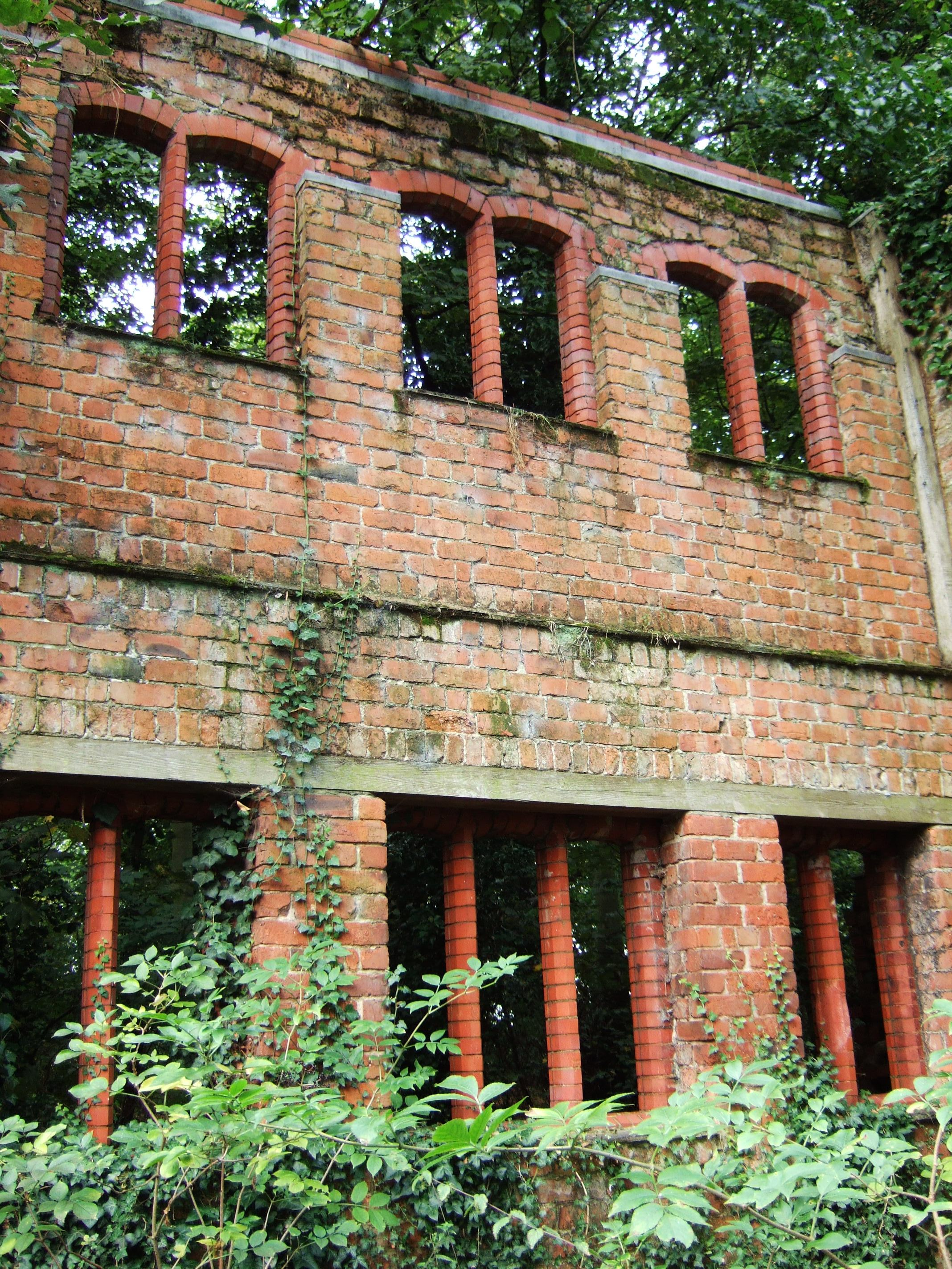 Ruins of Lydiate Hall, in Lydiate, Merseyside, England.